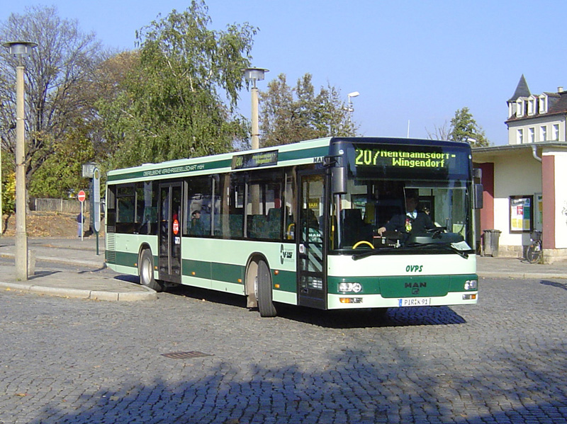 MAN NÜ313 city bus in Pirna, Germany. Built 2002. Oberelbische Verkehrsgesellschaft Pirna-Sebnitz mbHv company.